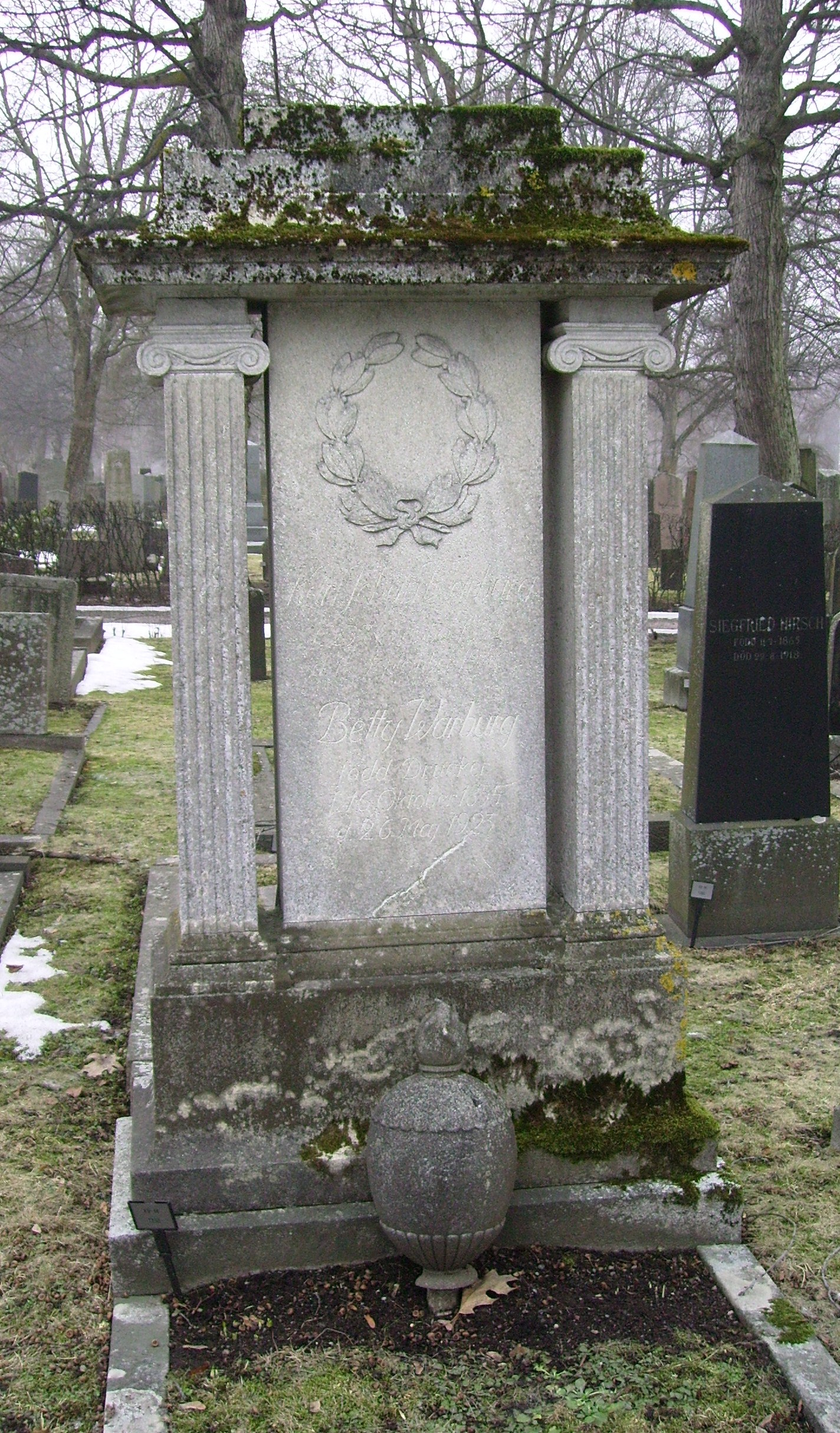 Picture of Karl Warburg's grave at Judiska norra begravningsplatsen in Solna